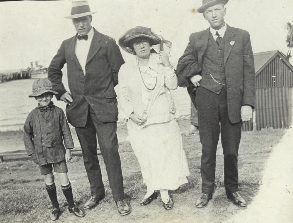 Family day out at Redcliffe, Queensland, ca. 1917. Day at the beach with the Hookers? Photograph of two men, a woman and a little boy on the beach at Redcliffe. There is a changing shed behind them and the little boy is wearing a norfolk jacket, short trousers and a tweed hat.